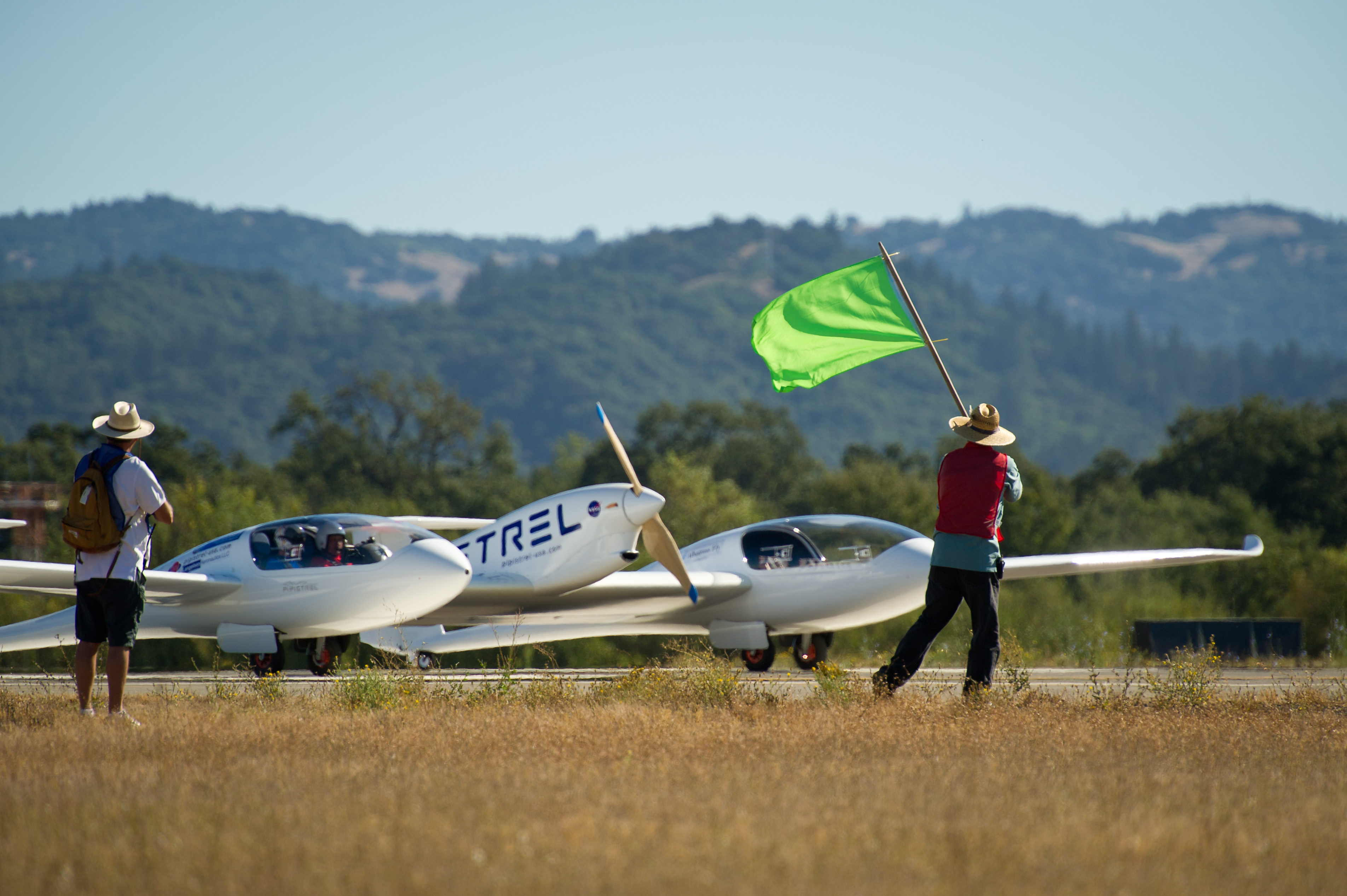 The Pipistrel-USA, Taurus G4 aircraft prepares to takeoff for the miles per gallon (MPG) flight during the 2011 Green Flight Challenge, sponsored by Google, at the Charles M. Schulz Sonoma County Airport in Santa Rosa, Calif. on Tuesday, Sept. 27, 2011. NASA and the Comparative Aircraft Flight Efficiency (CAFE) Foundation are having the challenge with the goal to advance technologies in fuel efficiency and reduced emissions with cleaner renewable fuels and electric aircraft.